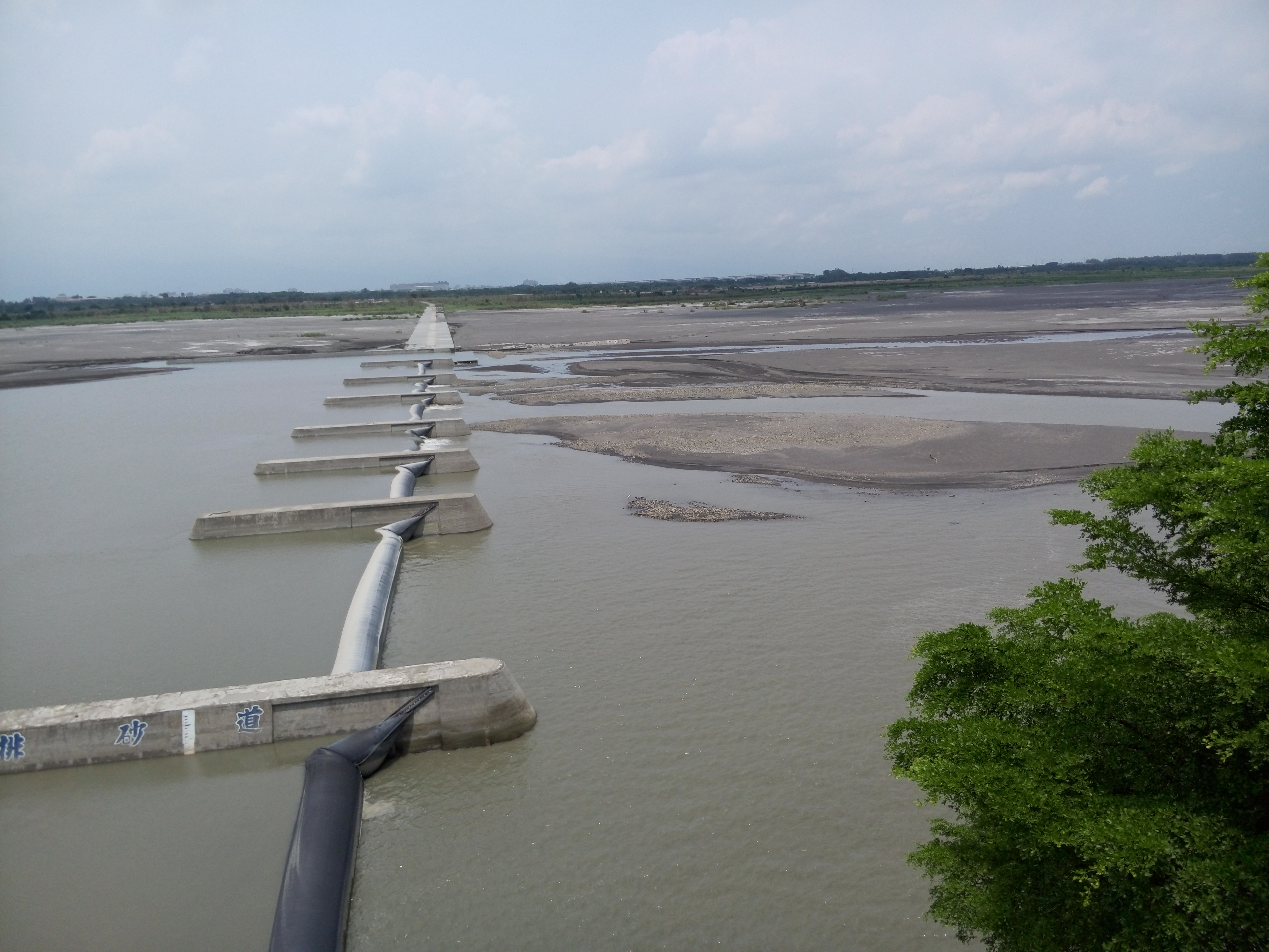 Taiwan Kaoshiung City Gaoping River Weir